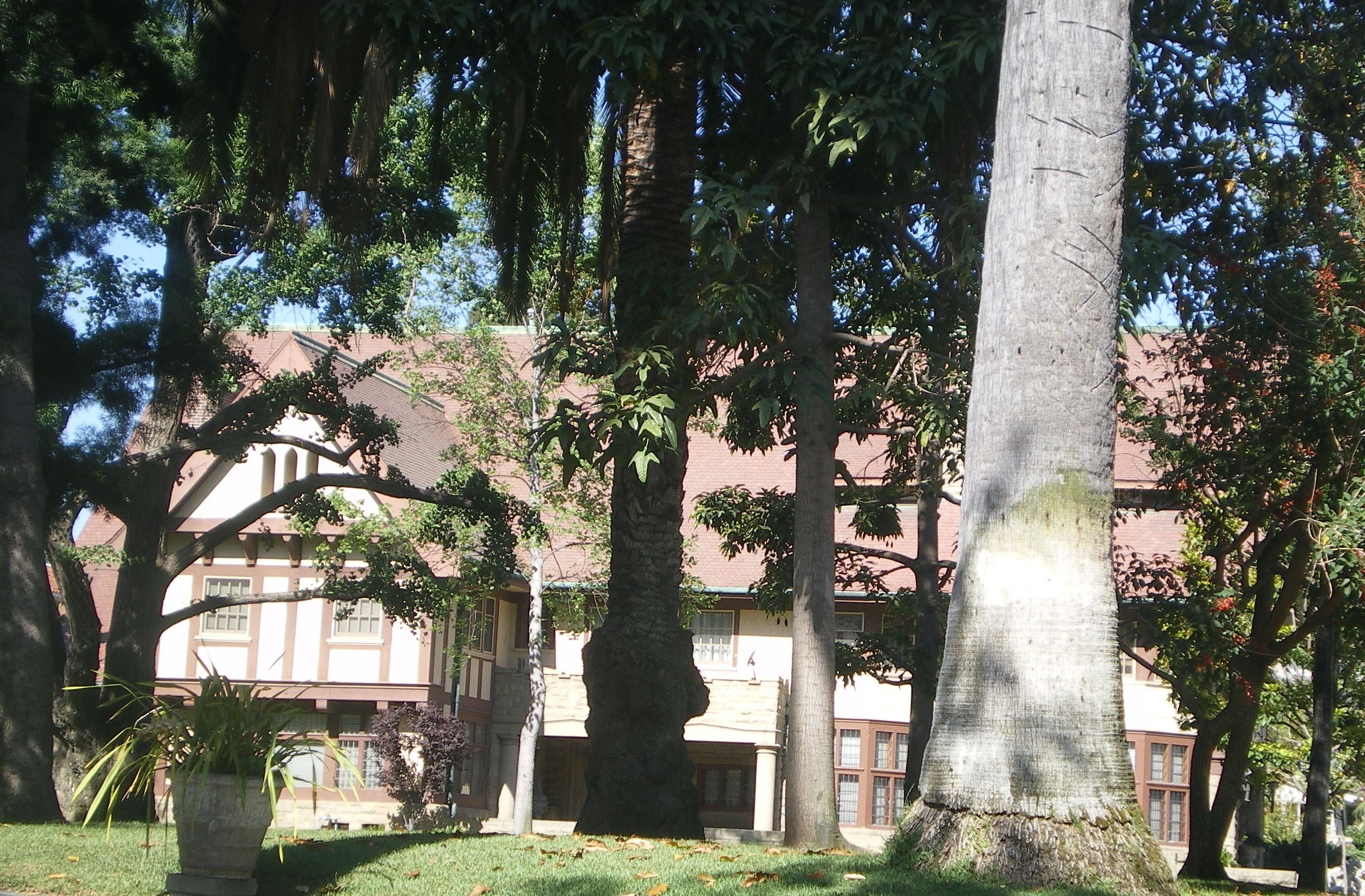 Ramsay-Durfee Estate, 2425 S. Western Avenue, Los Angeles, California